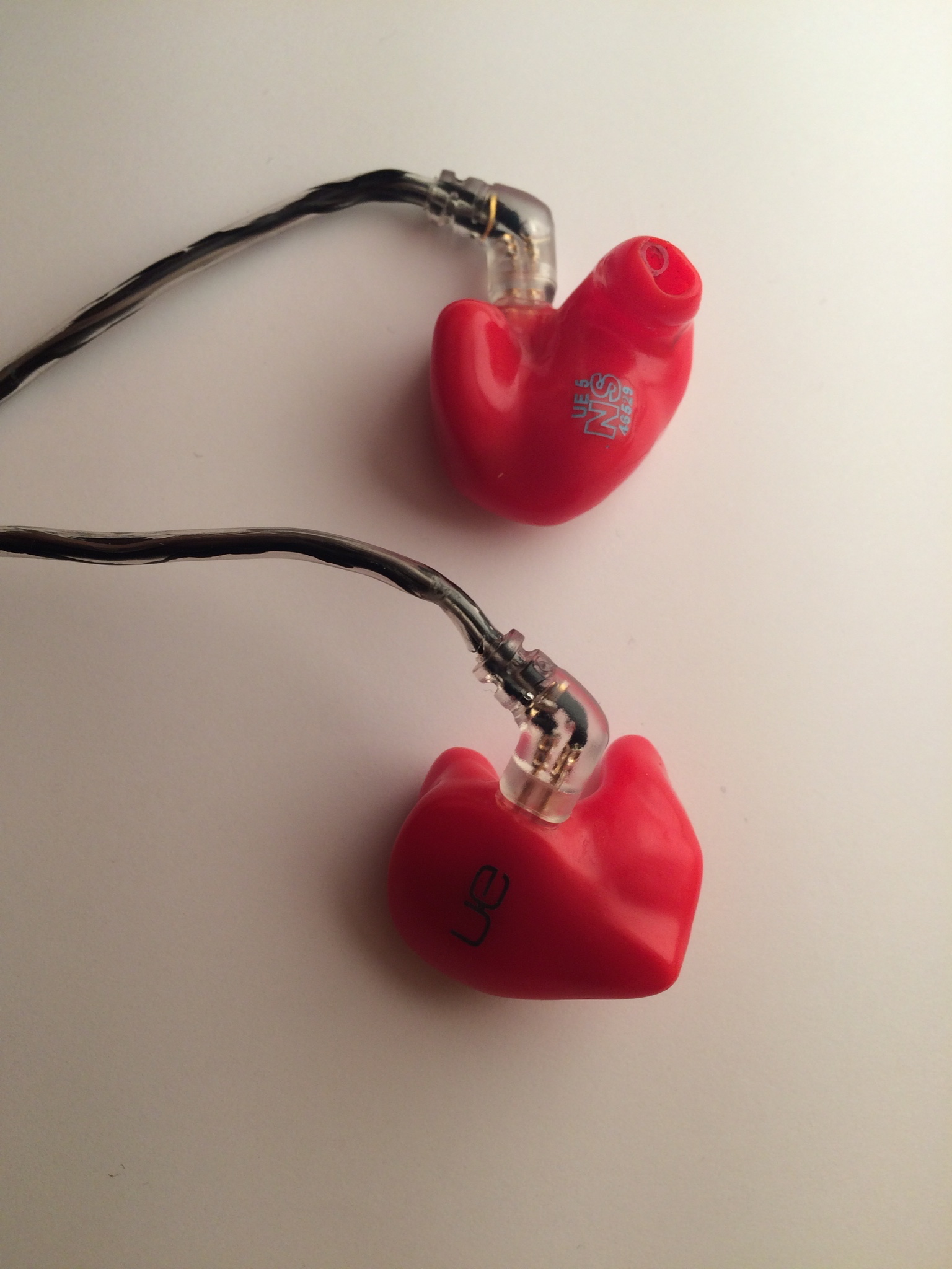 UE 5 Pro red